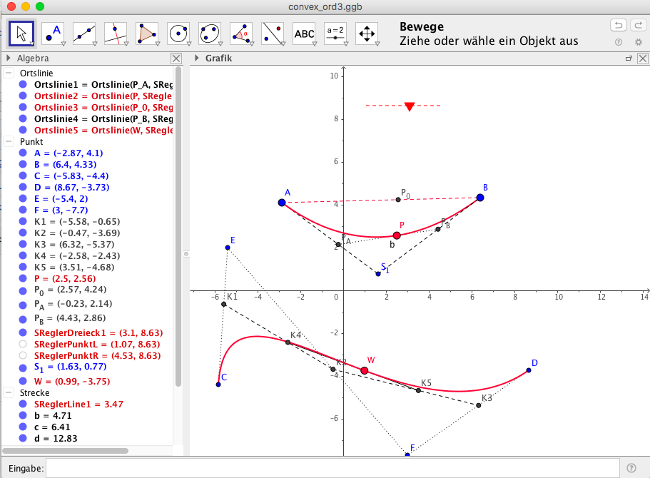 Screenshot Geogebra Convex Combination